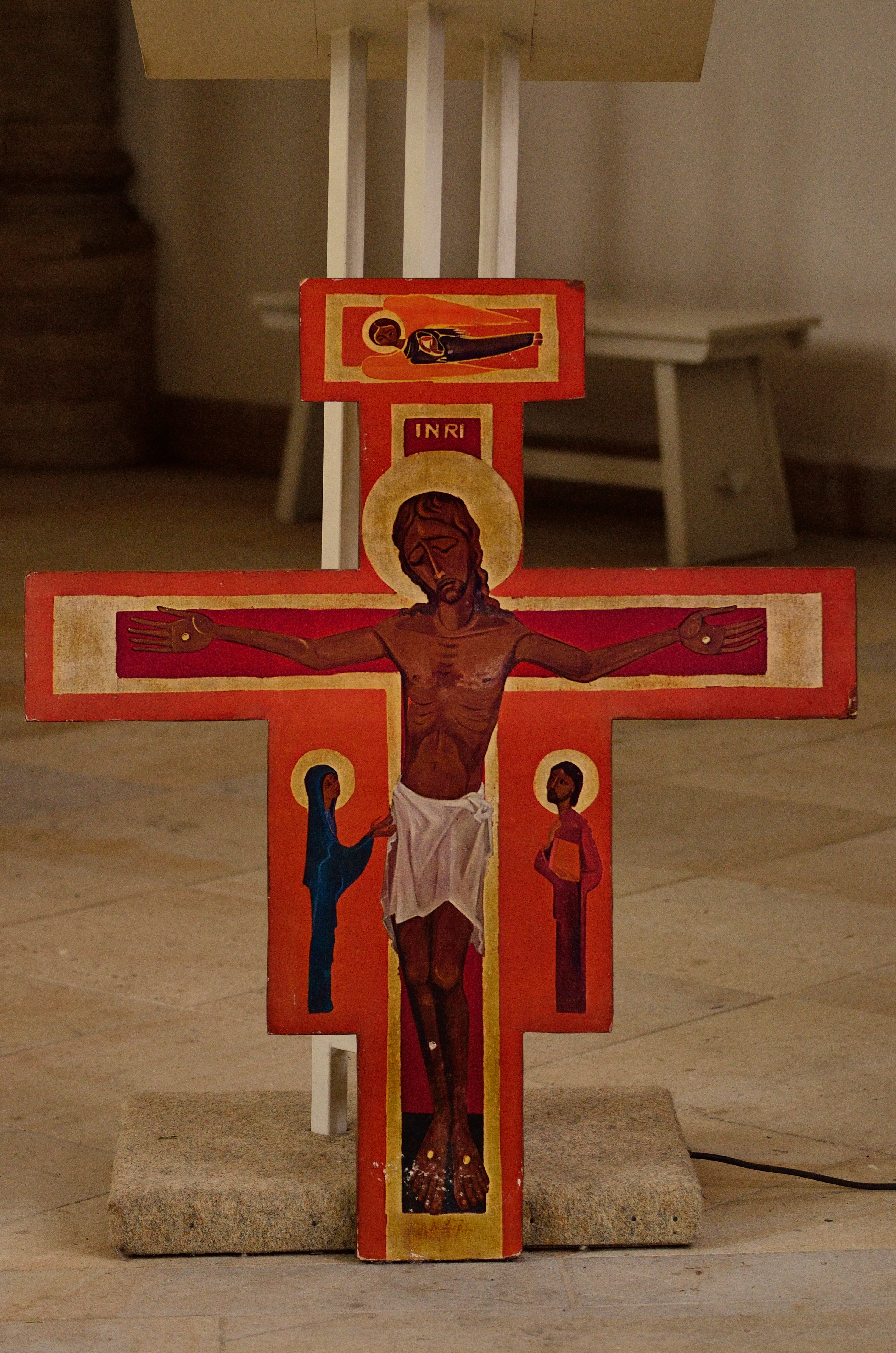 Garnisonkirche Oldenburg inner view